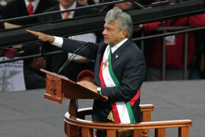 Andrés Manuel López Obrador being proclaimed "legitimate president" of Mexico